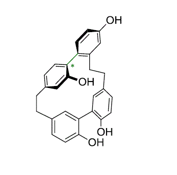 Isoplagiochin C